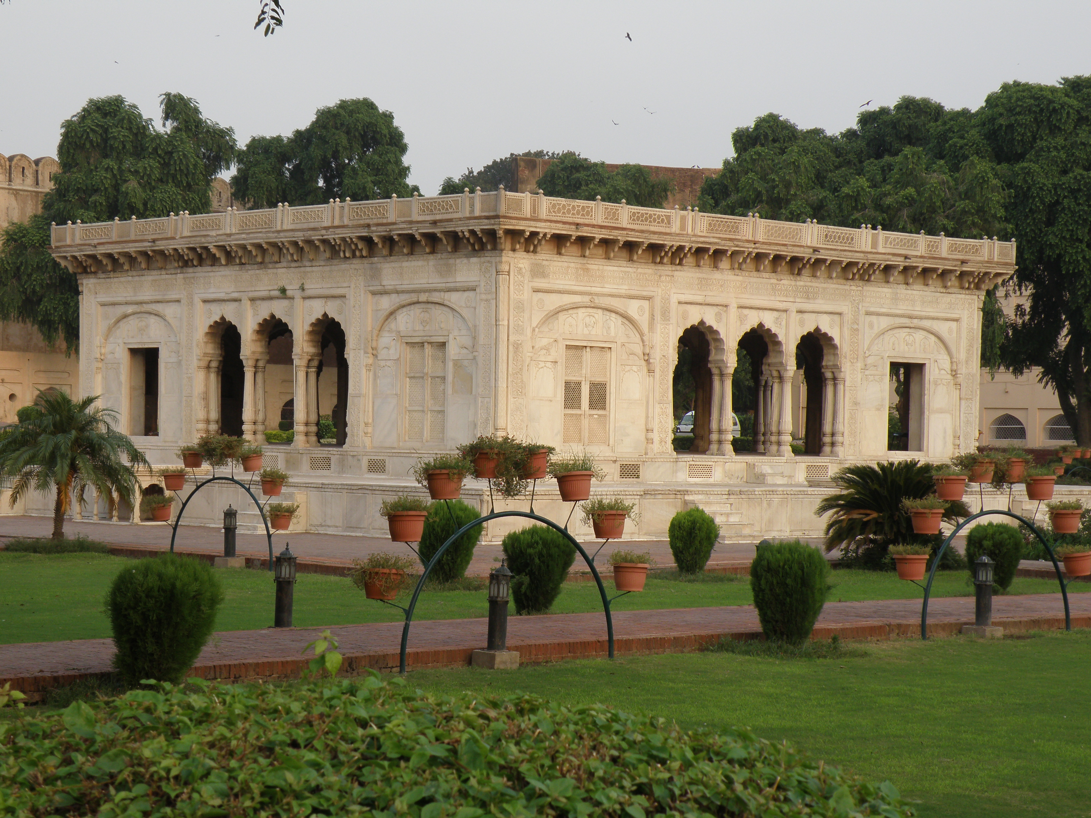 Hazuri Bagh Baradari This is a photo of a monument in Pakistan identified as the PB-61